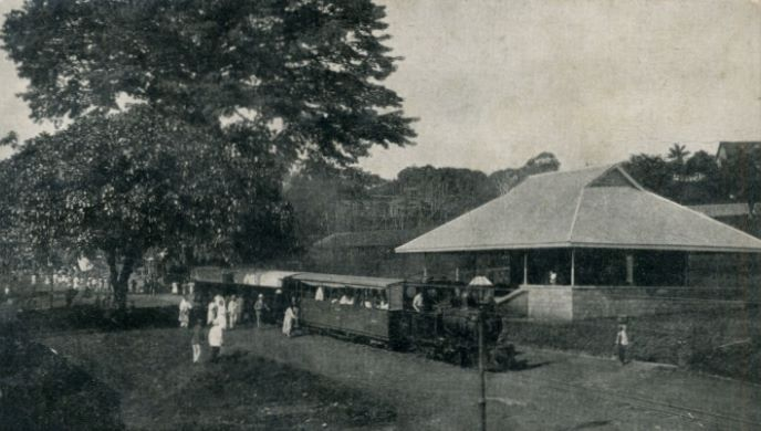 Cotton Tree Railway Station 3.30 p.m. Bungalow Train, Freetown. Lisk-Carew Brothers, Photo., Freetown, Sierra Leone. Registered.